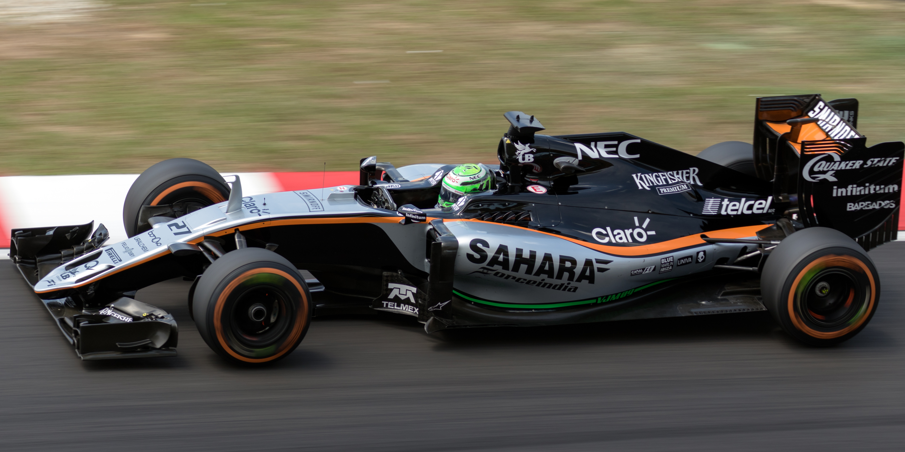 Formula One 2016 Rd.16 Malaysian GP: Nico Hülkenberg (Force India)